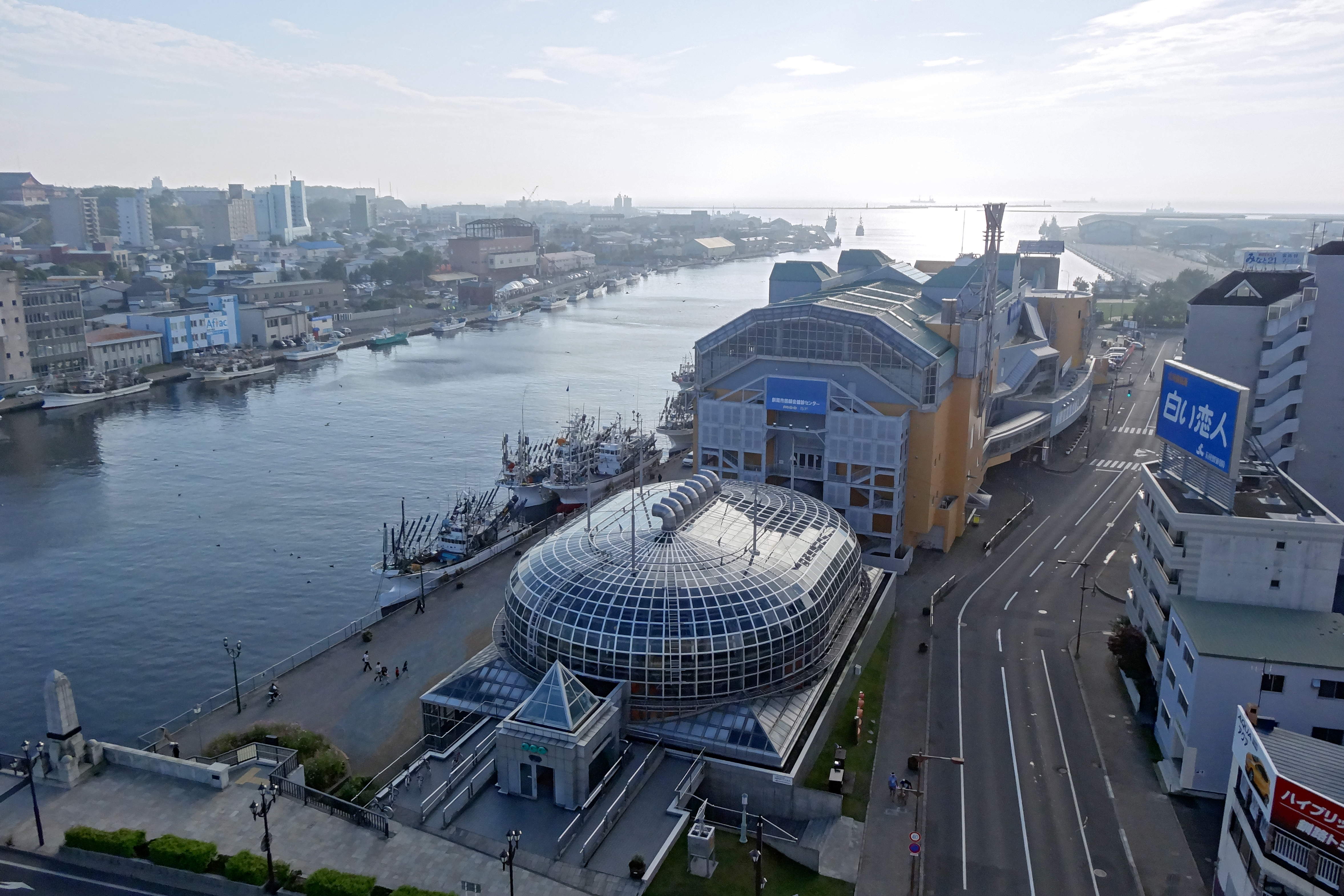 Kushiro Fisherman's Wharf MOO and EGG in Kushiro City, Hokkaido prefecture, Japan